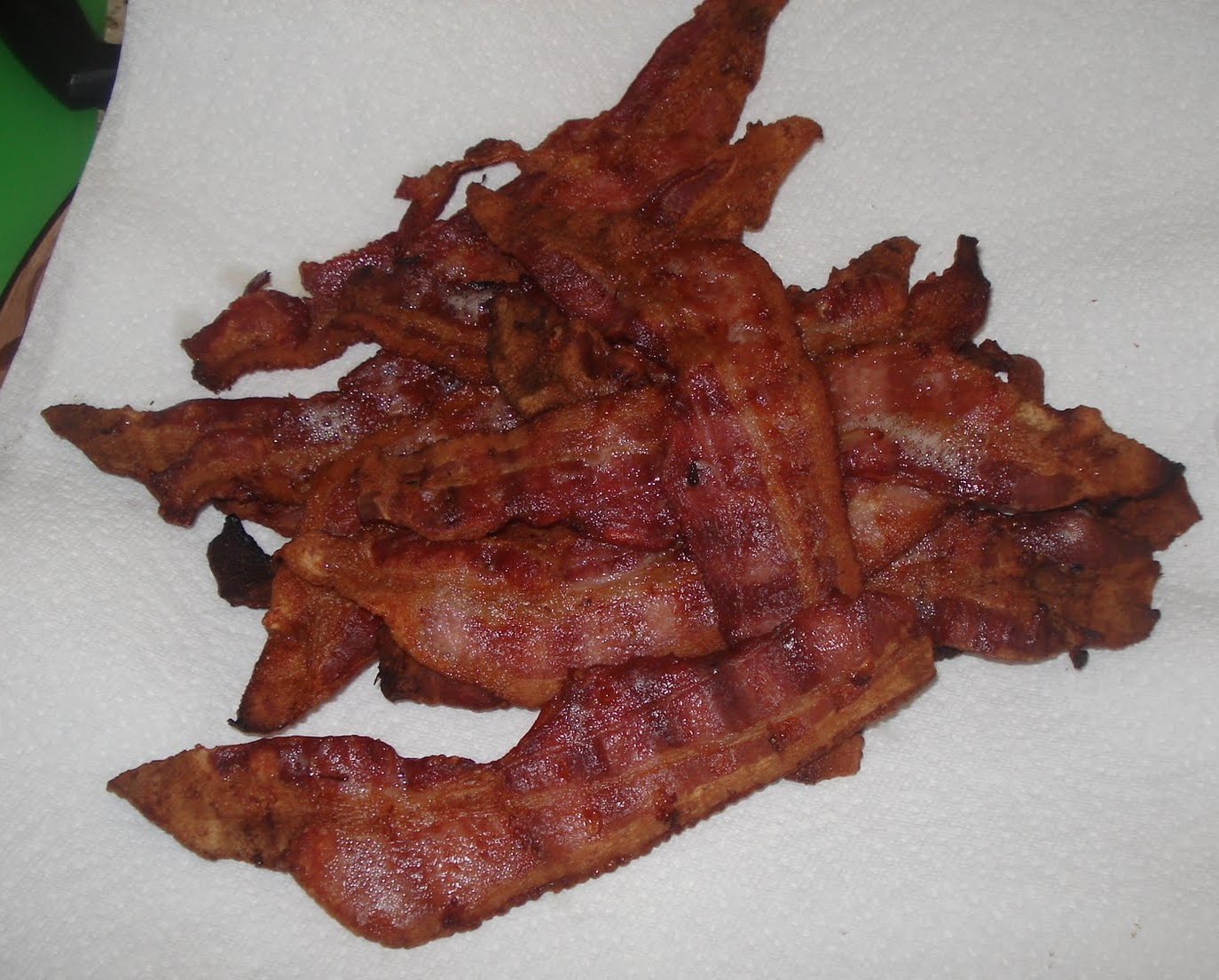 A pile of bacon cooked on a BBQ, on a plate